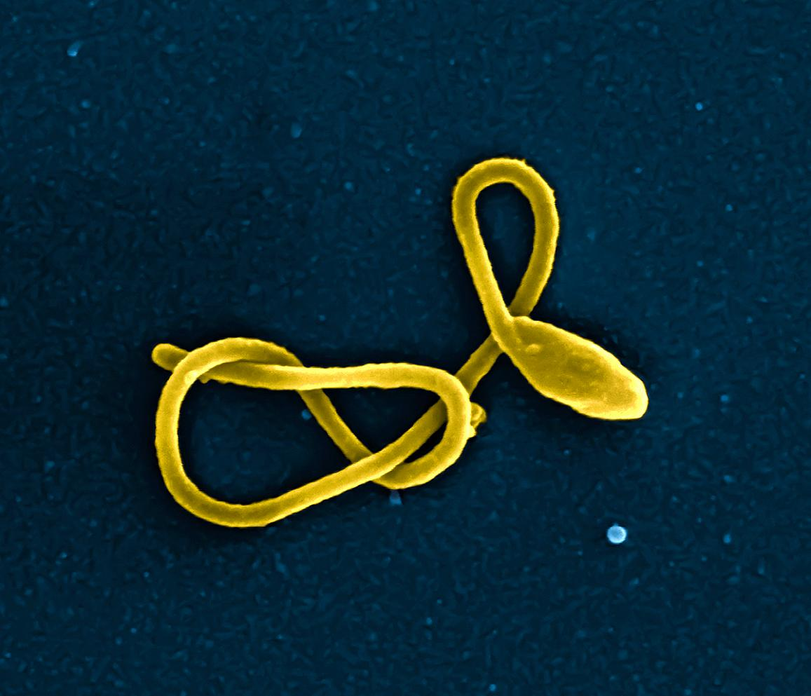 This scanning electron micrograph shows a single filamentous Ebola virus particle. Scientists supported by the NIH have discovered a set of powerful, broadly neutralizing antibodies in the blood of Ebola survivors. Read more: Credit: National Institute of Allergy and Infectious Diseases